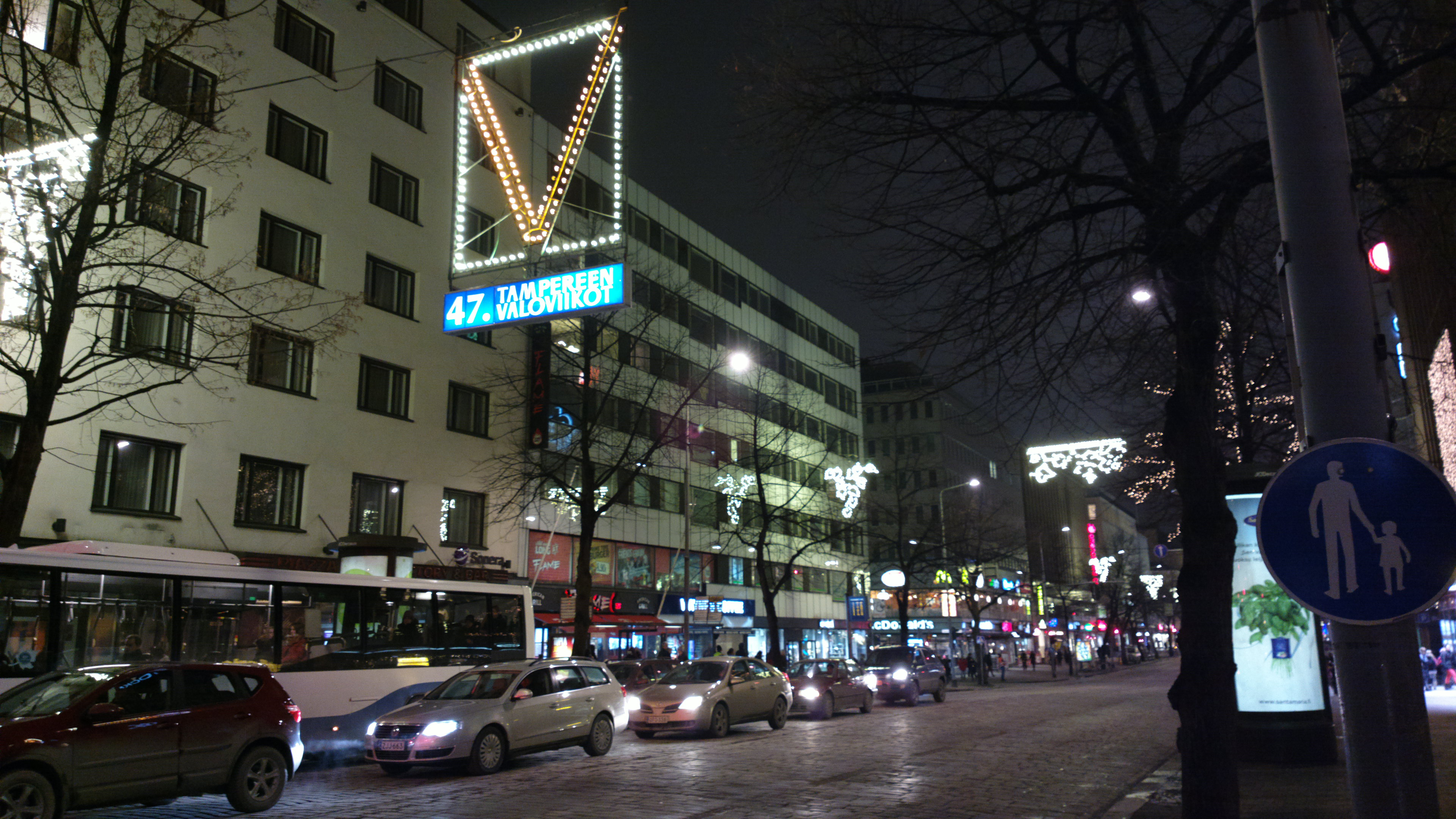 47th annual Tampere Light Weeks (Tampereen valoviikot) 2012